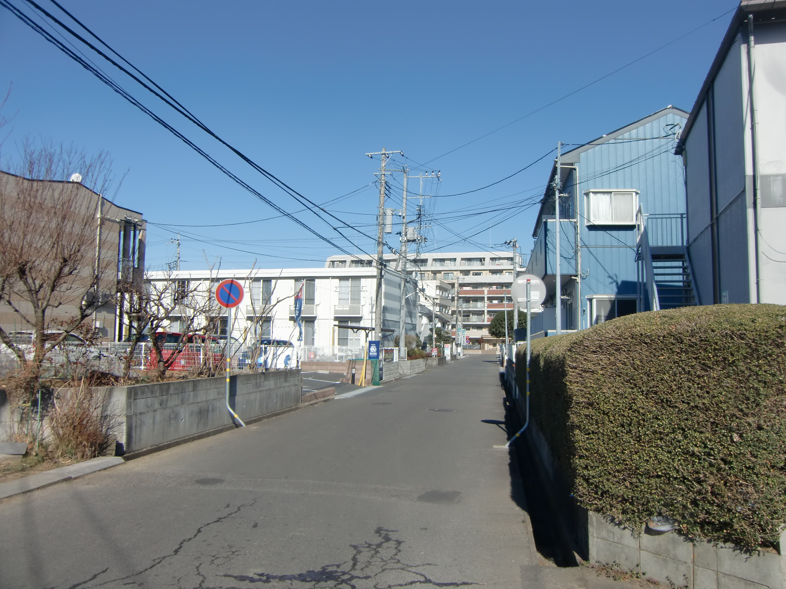 Landscape in Kasuga 4-chōme, Tsukuba city, Ibaraki prefecture, Japan.